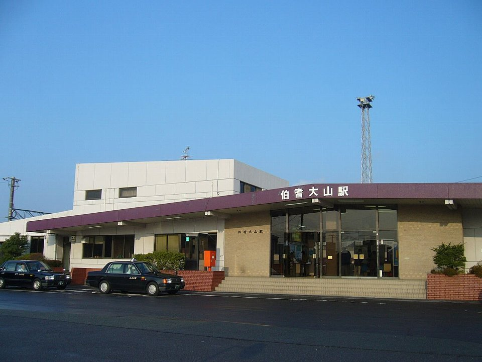 Hoki-Daisen Station